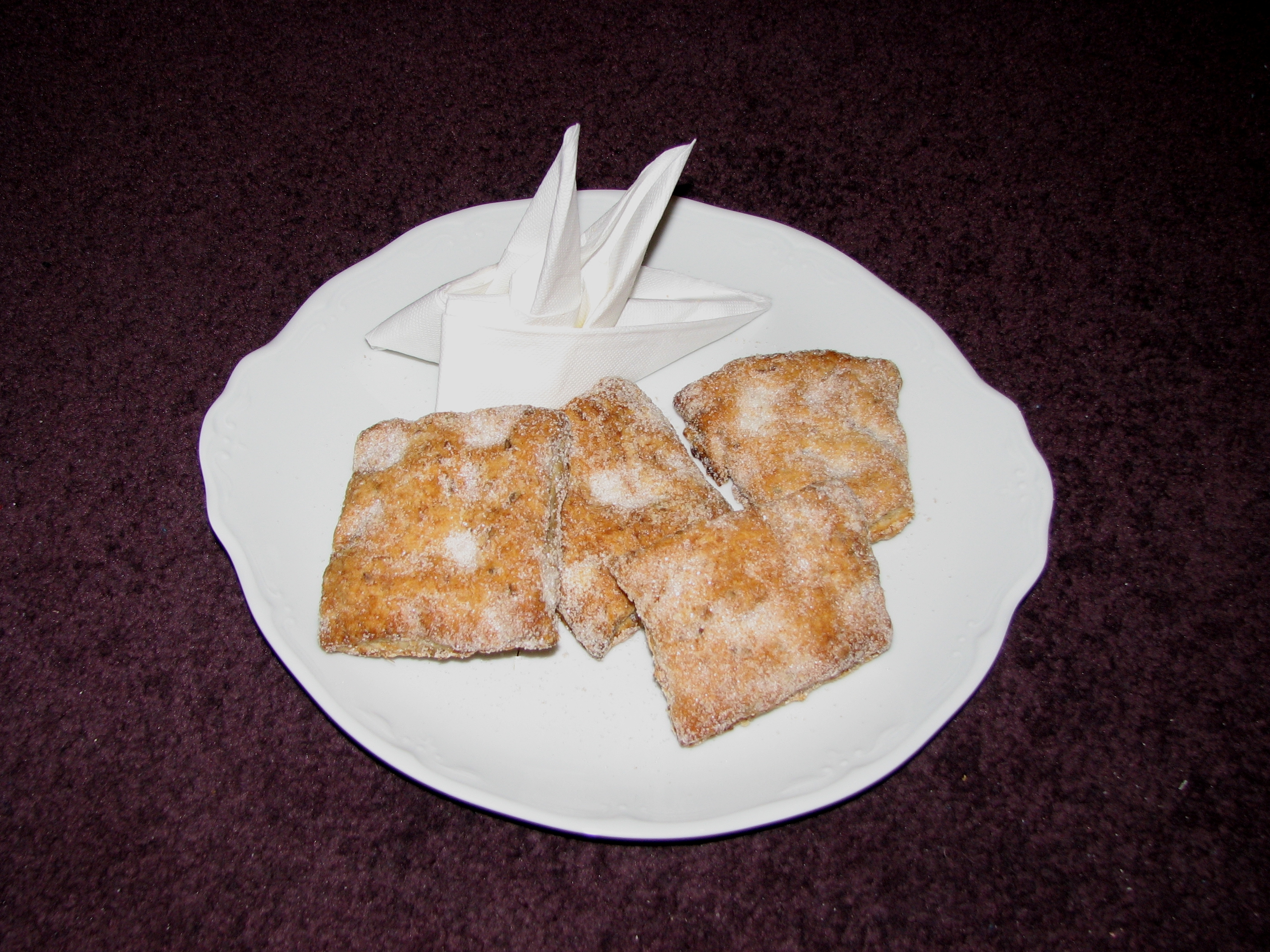 Bollas de chicharrón. Typical Spanish dessert from Ávila.